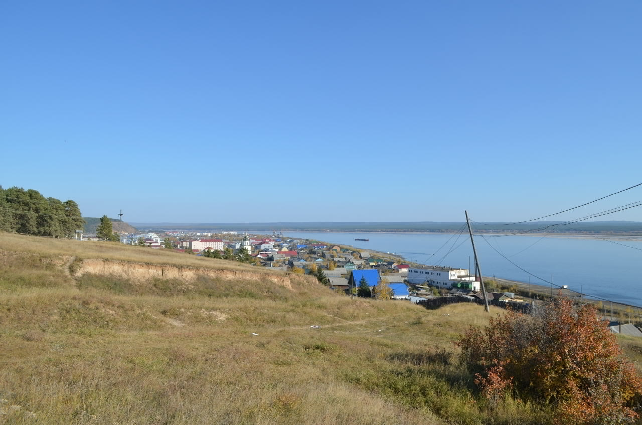 This photos are made during cruise Yakutsk — Lеnskiye Shchyoki, Lena Cheeks — Yakutsk (with arrival in Mirny), 05.09−17.09.2016